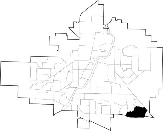 A map showing the location of the Rosewood neighbourhood in Saskatoon, Saskatchewan, Canada.